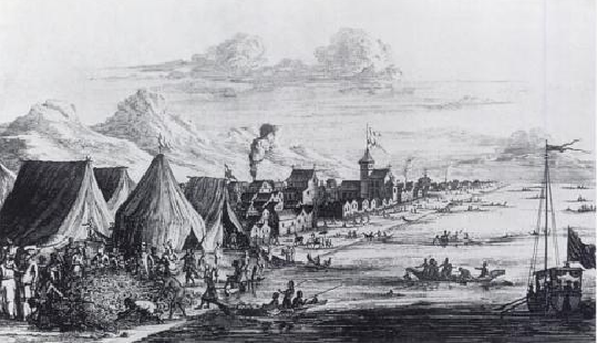 The Pearl Fishery at Tuticorin, India. Artwork by Johann Nieuhof, c. 1663. Republished in "Beyond price: pearls and pearl-fishing: origins to the age of discoveries", R. A. Donkin (1998) (Memoirs of the American Philosophical Society, vol. 224. ISBN 9780871692245)